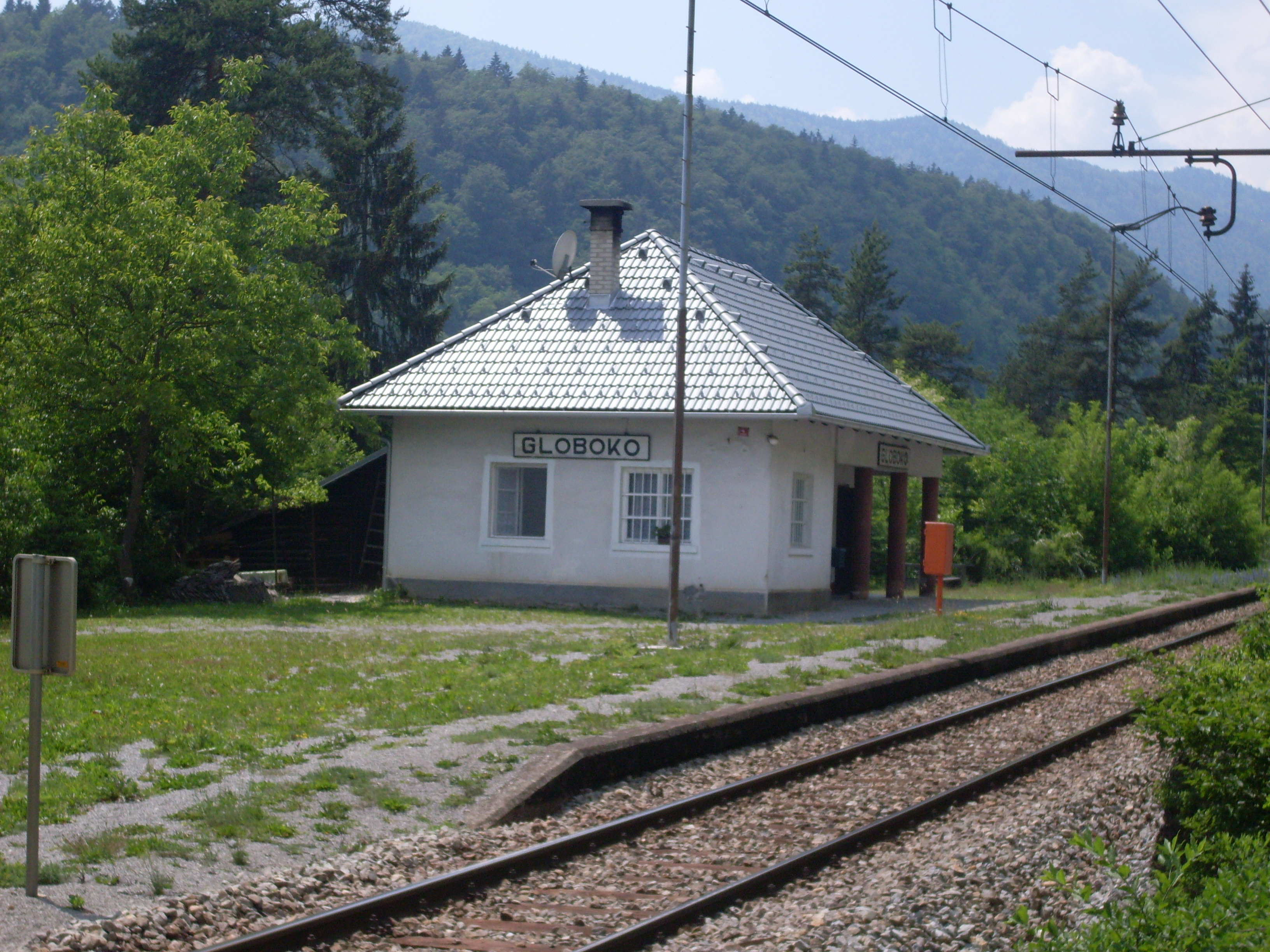 Railway hakt in Globoko, SloveniaSlovenščina: Železniško postajališče Globoko